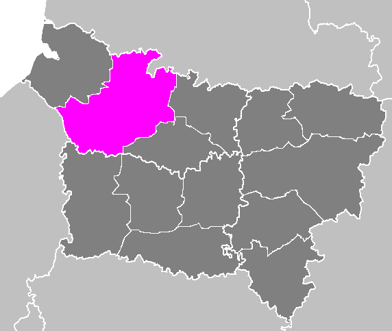 Maps of arrondissements and cantons of France: Arrondissement d Amiens.PNG